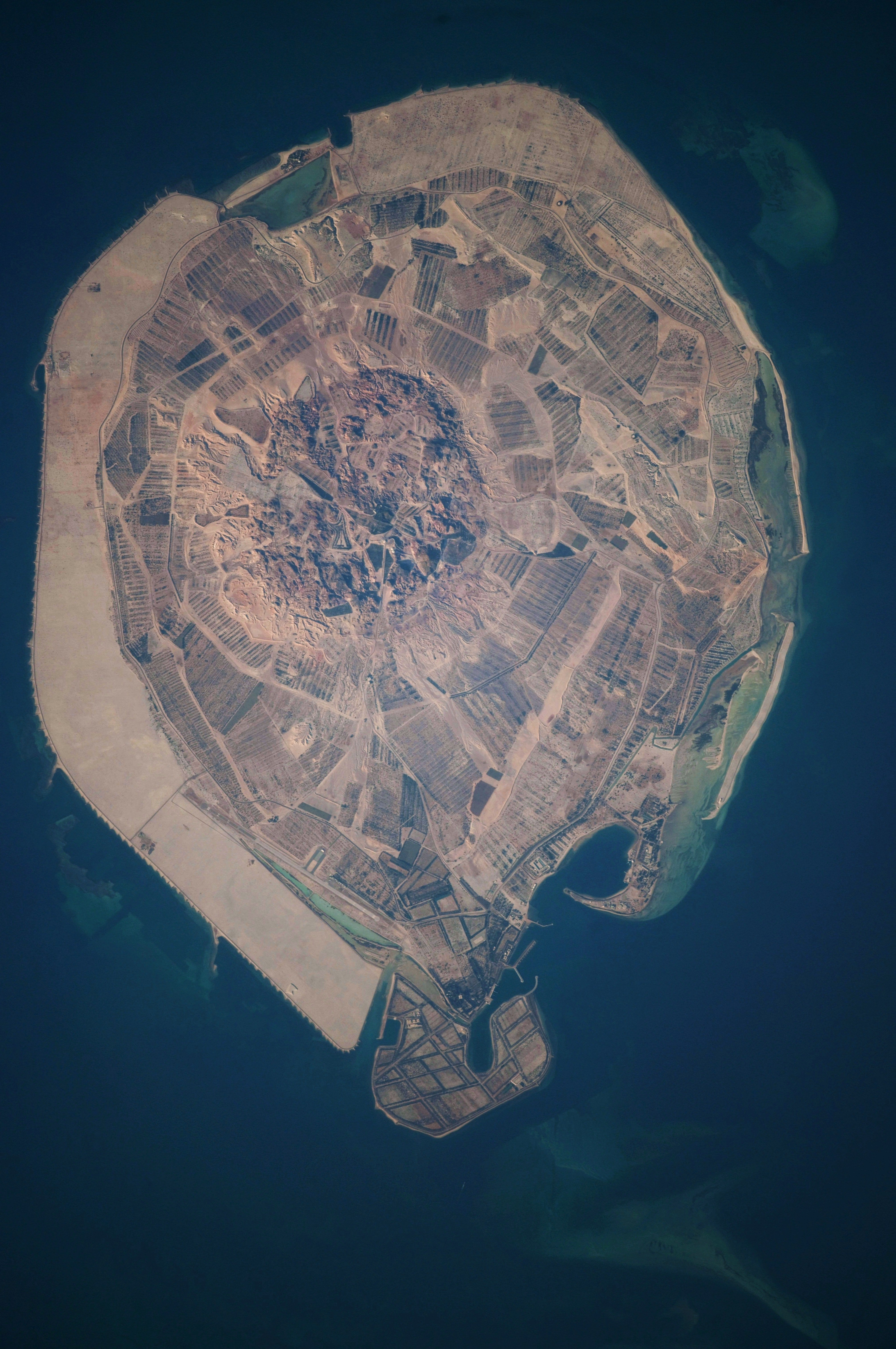 This astronaut photograph illustrates the varying character of surfaces on Sir Bani Yas. The central mountains of Jebel Wahid (image centre) mark the location of the Sir Bani Yas salt dome. The dome has breached the surface but exposed salt, primarily gypsum, is eroded, leaving a rugged, insoluble cap made of fragments of the overlaying sedimentary and volcanic rocks. Sand and silt derived from the Jebel Wahid and surrounding gravel-covered areas form beaches along the outer edge of the island. Tan graded areas along the western and north-eastern coast of the island (image bottom and image left) may be re-vegetated with additional plots or developed for other land uses.